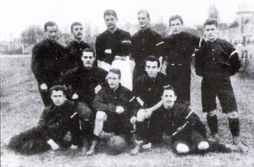 The German unofficial representative team in Paris, December 1898.